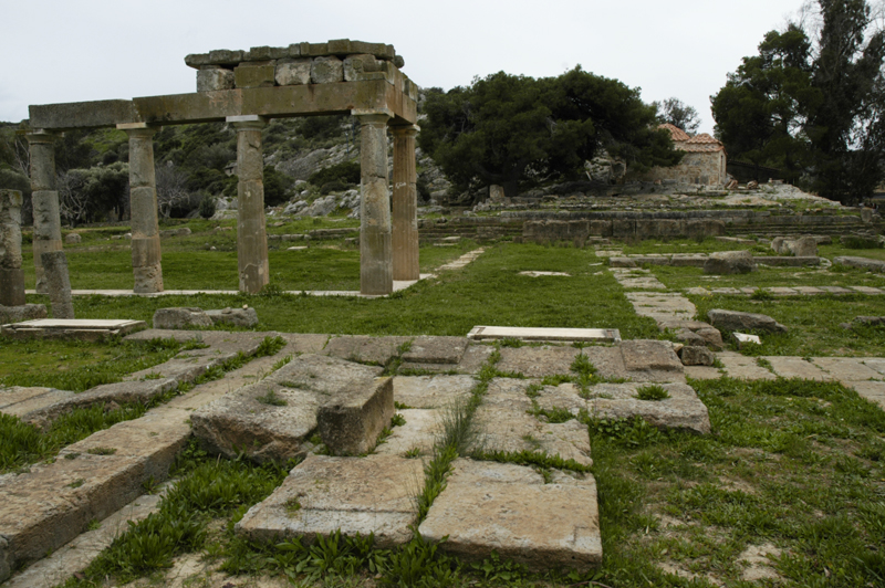 J. M. Harrington, personal digital image